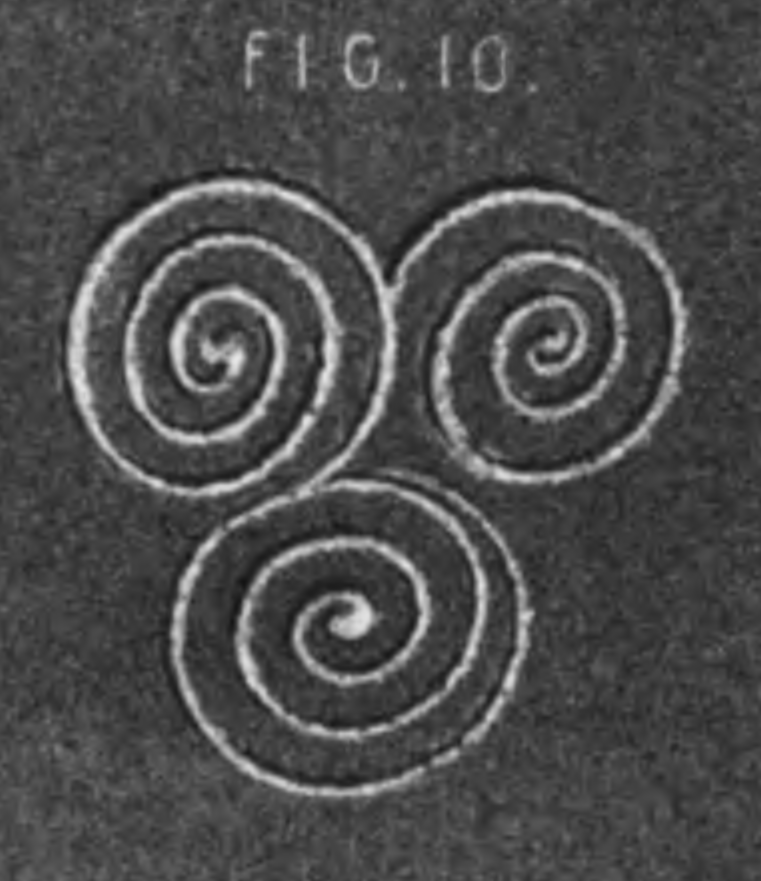 Volutes conjoined together from Auchnabreach (Achnabreck) near Kilmartin, Argyll Scotland. PLate 2, Figure 10 from Archaic Sculpturings of Cups, Circles, &c. Upon Stones and Rocks in Scotland, England, & Other Countries